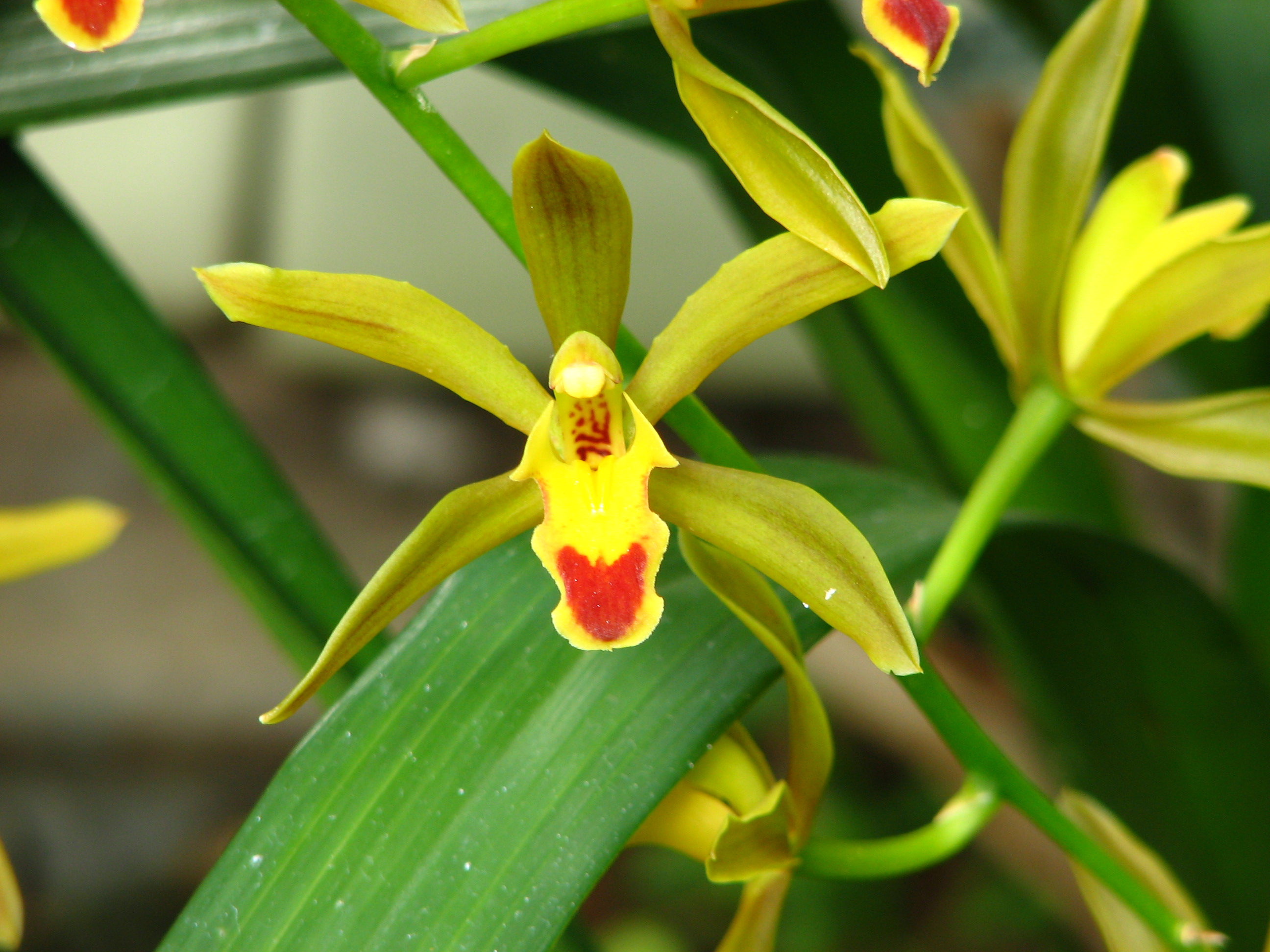 Cymbidium sp. Taken at Princess of Wales Conservatory, Kew Gardens, (London, UK)